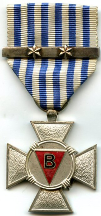 Political Prisonner's Cross 1940-1945 (Belgium)